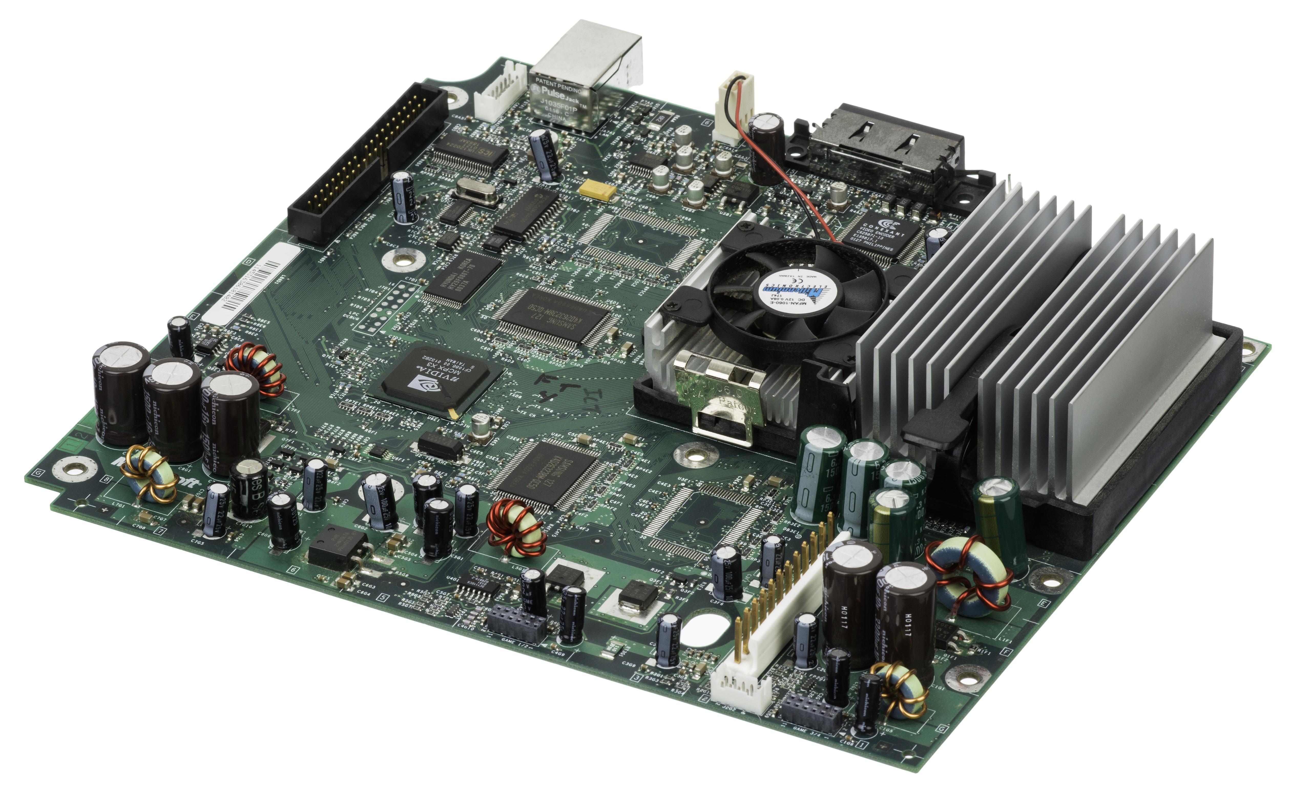 The motherboard for the Xbox, a sixth-generation gaming console made by Microsoft that was first released in 2001. The Xbox was Microsoft's first foray into the gaming console market, and was followed by the Xbox 360 in 2005. The console is notable for having a built-in hard drive, breakaway controller dongles and an Ethernet port to support Microsoft's online gaming service, Xbox Live. The motherboard for the Xbox contains a custom 32-bit, 733 MHz Intel Pentium III CPU. It has 64 MB of DDR memory and a 233 MHz Nvidia GPU.